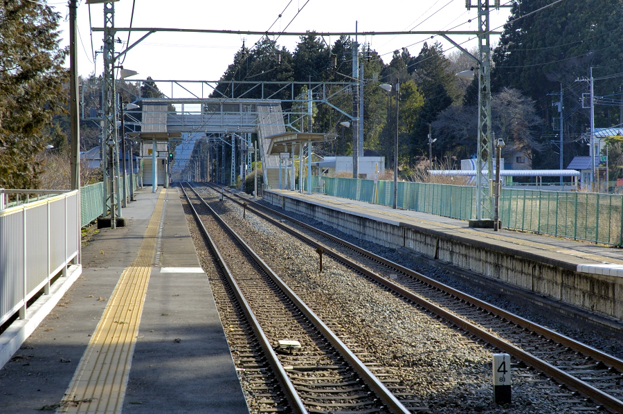 Myōjin Station of the Tōbu Nikko Line, Nikkō, Tochigi, Japan